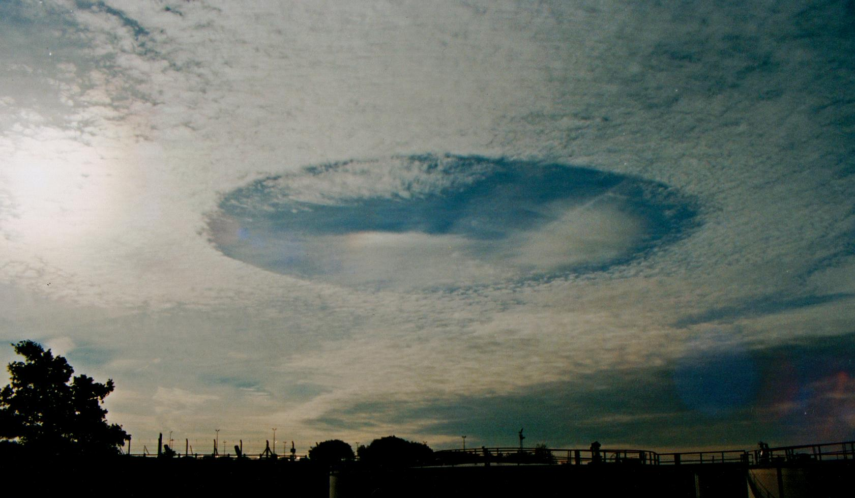 The Fallstreak Hole, or hole punch cloud, occurs when part of a cloud's water droplets freeze into ice crystals and fall below the cloud layer, according to the Cloud Appreciation Society. This was taken in 2003 and I have scanned it as it was originally taken on a Canon T90 35mm Camera. No digital effects were used to enhance or change this photo as it was photographed as seen in Birmingham, UK